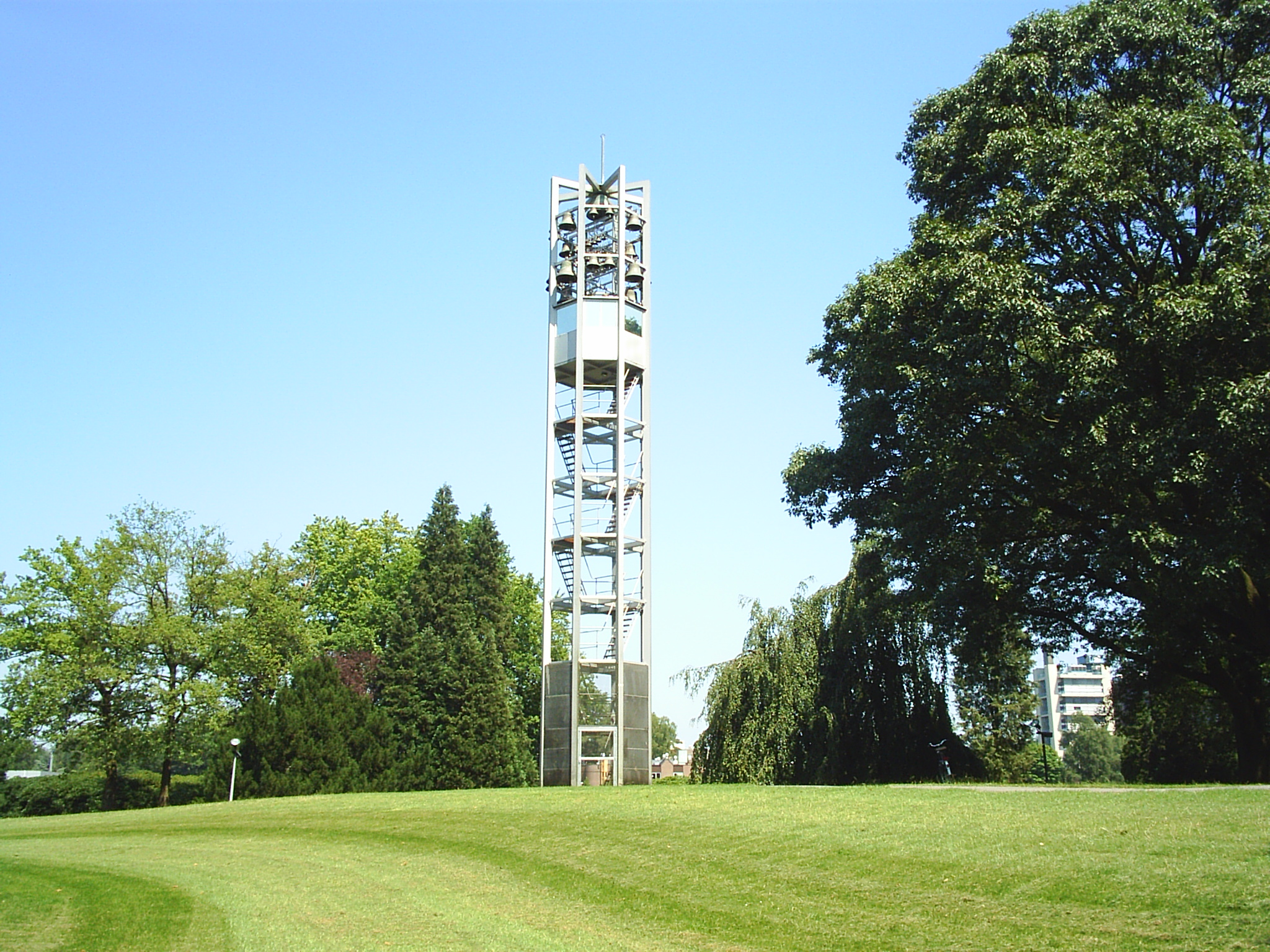 The carillon on the campus